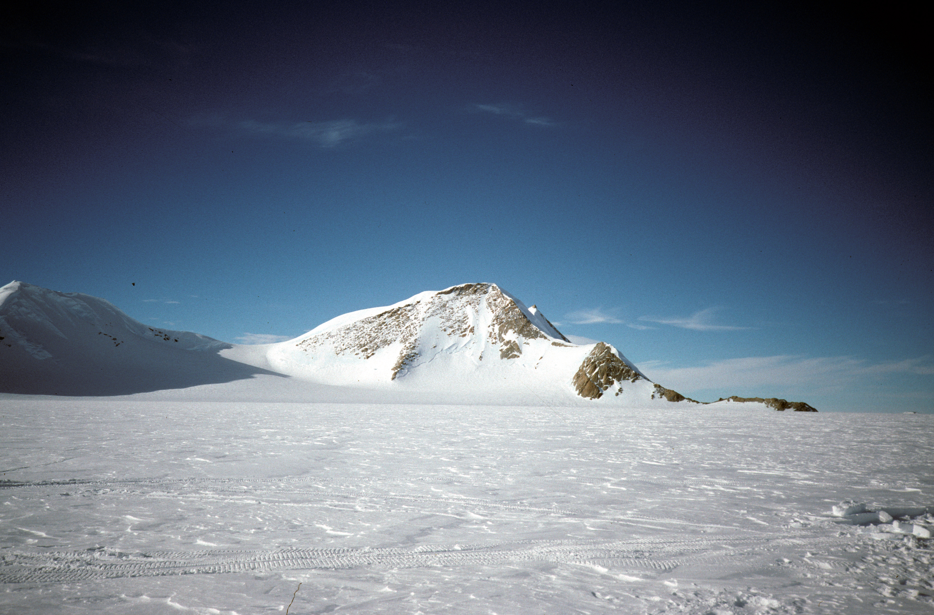 Brand Peak is a sharp snow-covered peak located 10 miles (16 km) east-southeast of the Eternity Range and 4 miles (6.4 km) northwest of Mount Duemler, in Palmer Land